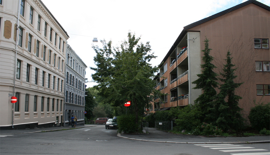 Bergverksgata - a short street in Oslo (Grünerløkka)